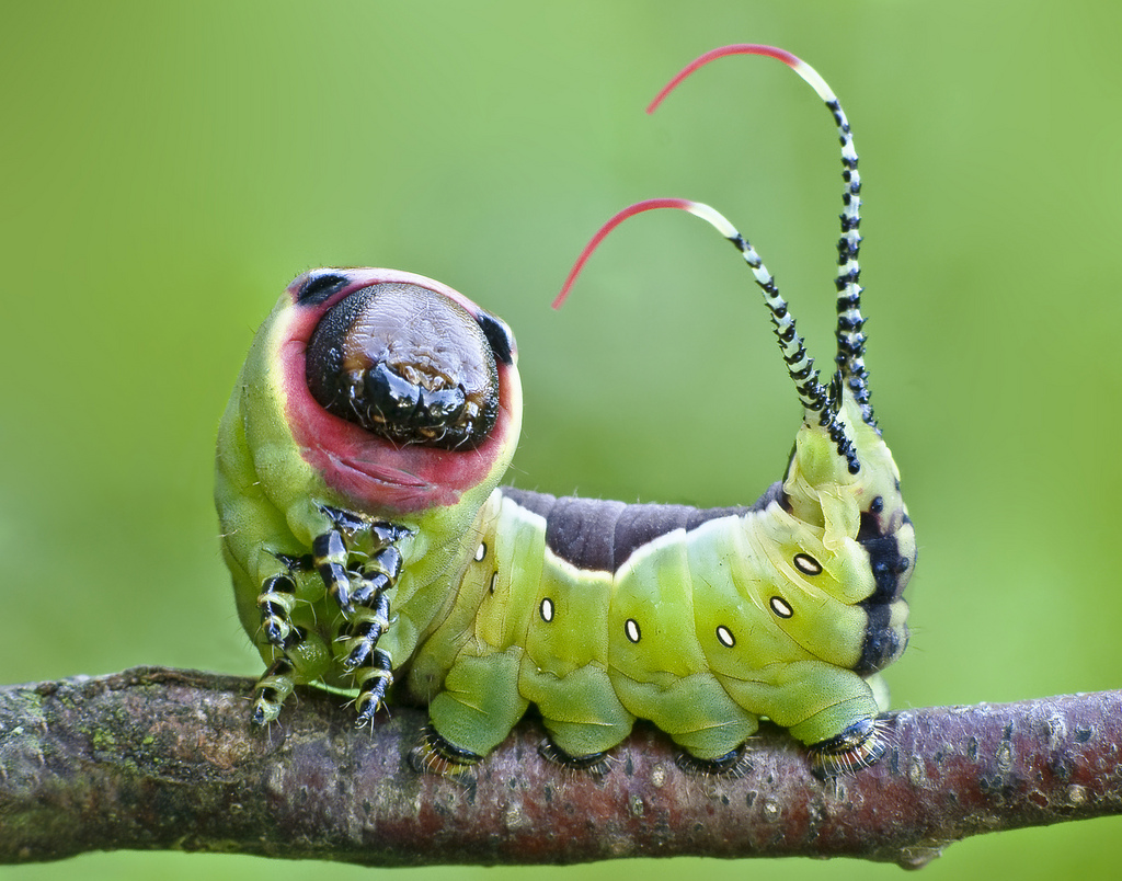 I took this photo last summer. This caterpillar is one of the most beautifull caterpillars in Lithuania. I think it is very photogenic caterpillar because of its green colour and red tails which are visible only when caterpillar is scared. He has very nice face. :) Please have a view of full size... Thanks :)